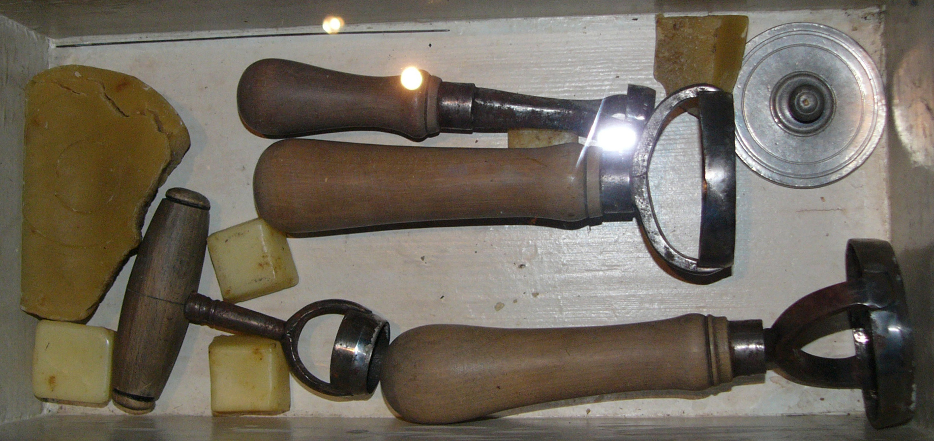 Jagger for baking hosts.